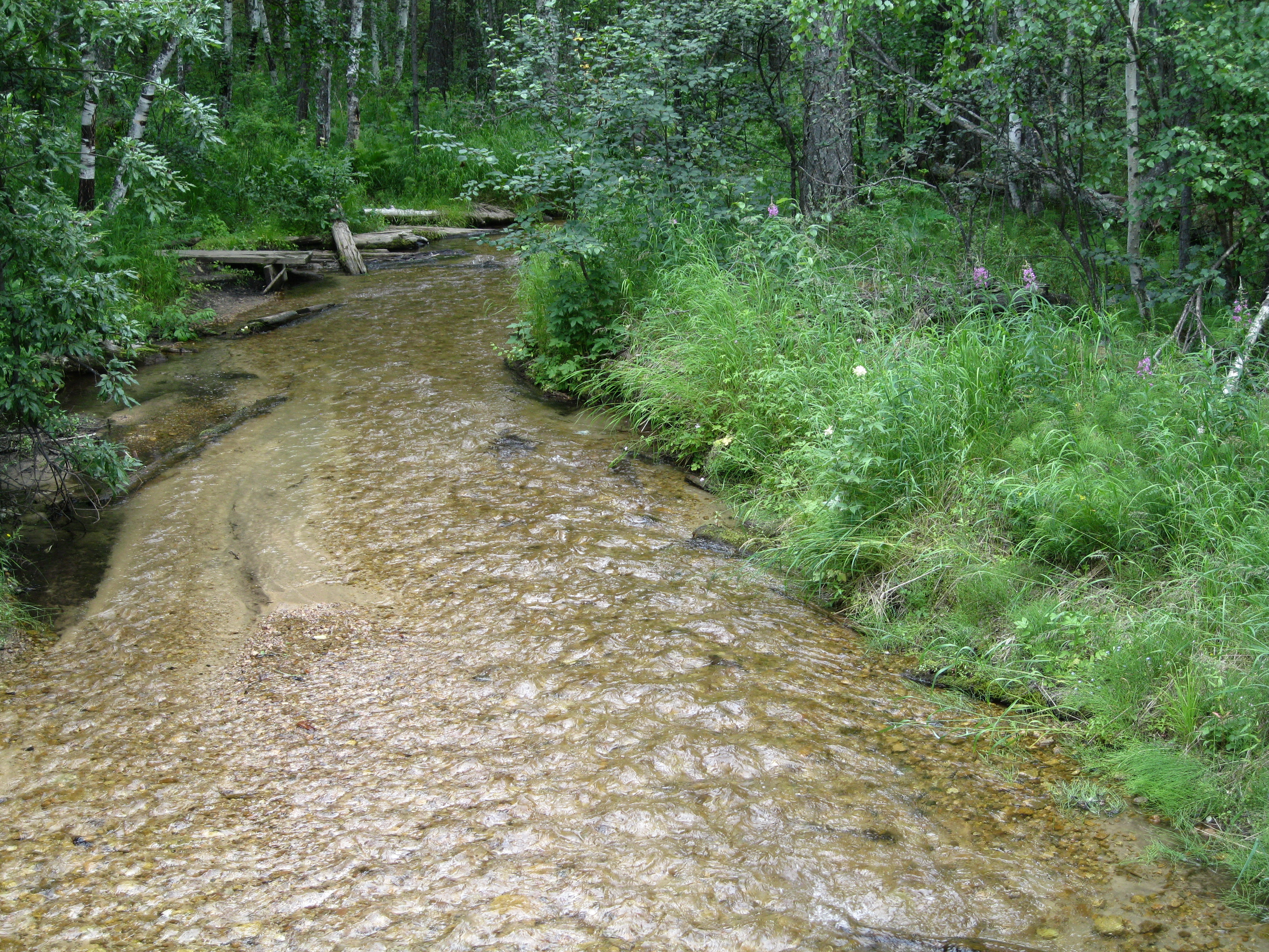 Burtuy river in Buryatia, Russia